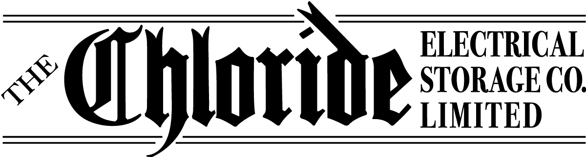 Chloride Electrical Storage Co. Logotype